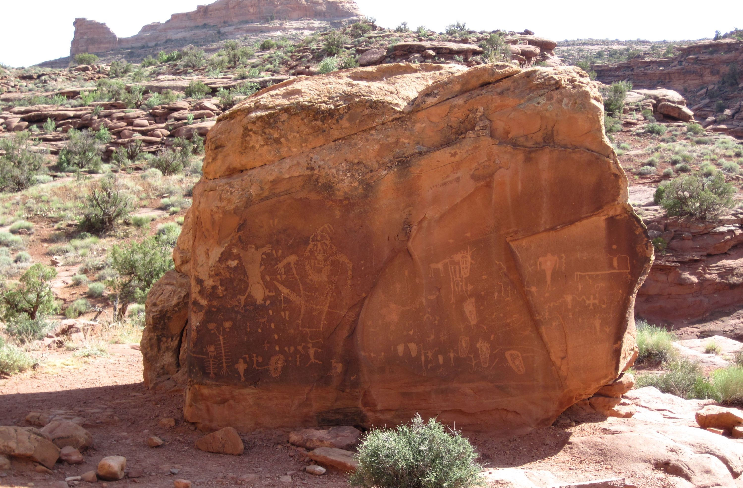 American Indian-carved petroglyphs on large, hematitic quartzose sandstone talus block of Navajo Sandstone (Lower Jurassic) in Utah. Locality: Kane Springs Canyon, just south of the Colorado River, west of the town of Moab, eastern Utah, USA